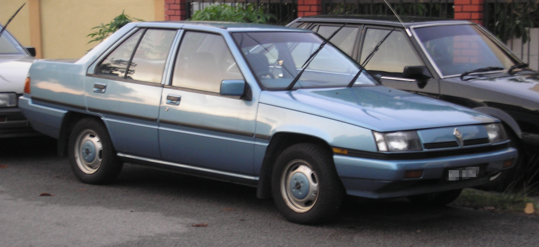 The front of a first generation Proton Saga, in Bangsar, Kuala Lumpur, Malaysia.